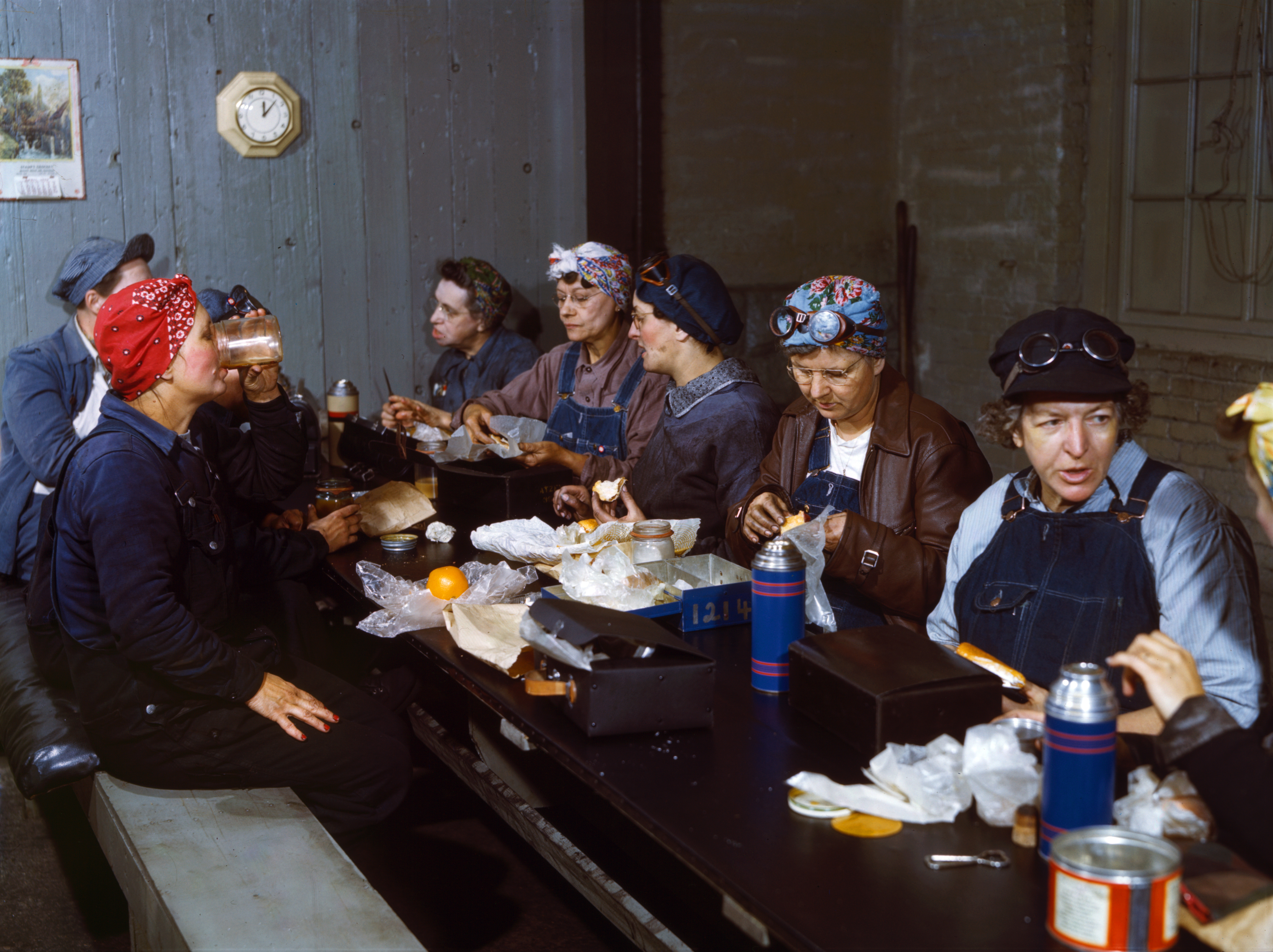 Roundhouse wipers having lunch in their rest room, Chicago & North Western Railroad, Clinton, Iowa, April 1943. Reproduction from color slide LC-USW361-644 LC-DIG-fsac-1a34808, FSA/OWI Collection